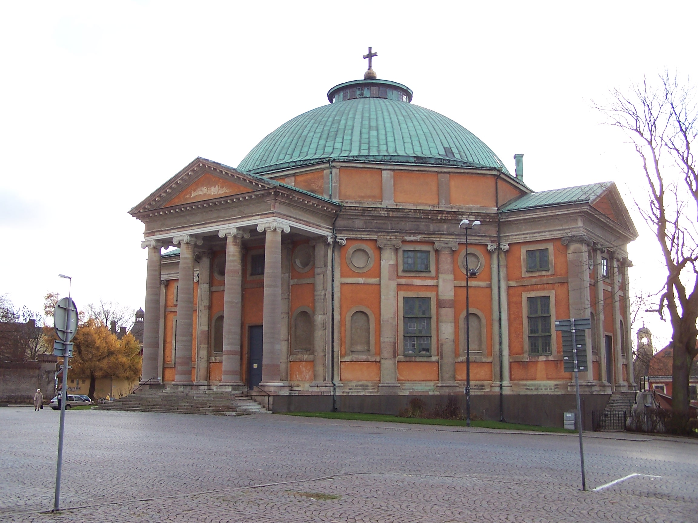 Trefaldighetskyrkan (Trinity church) in Karlskrona